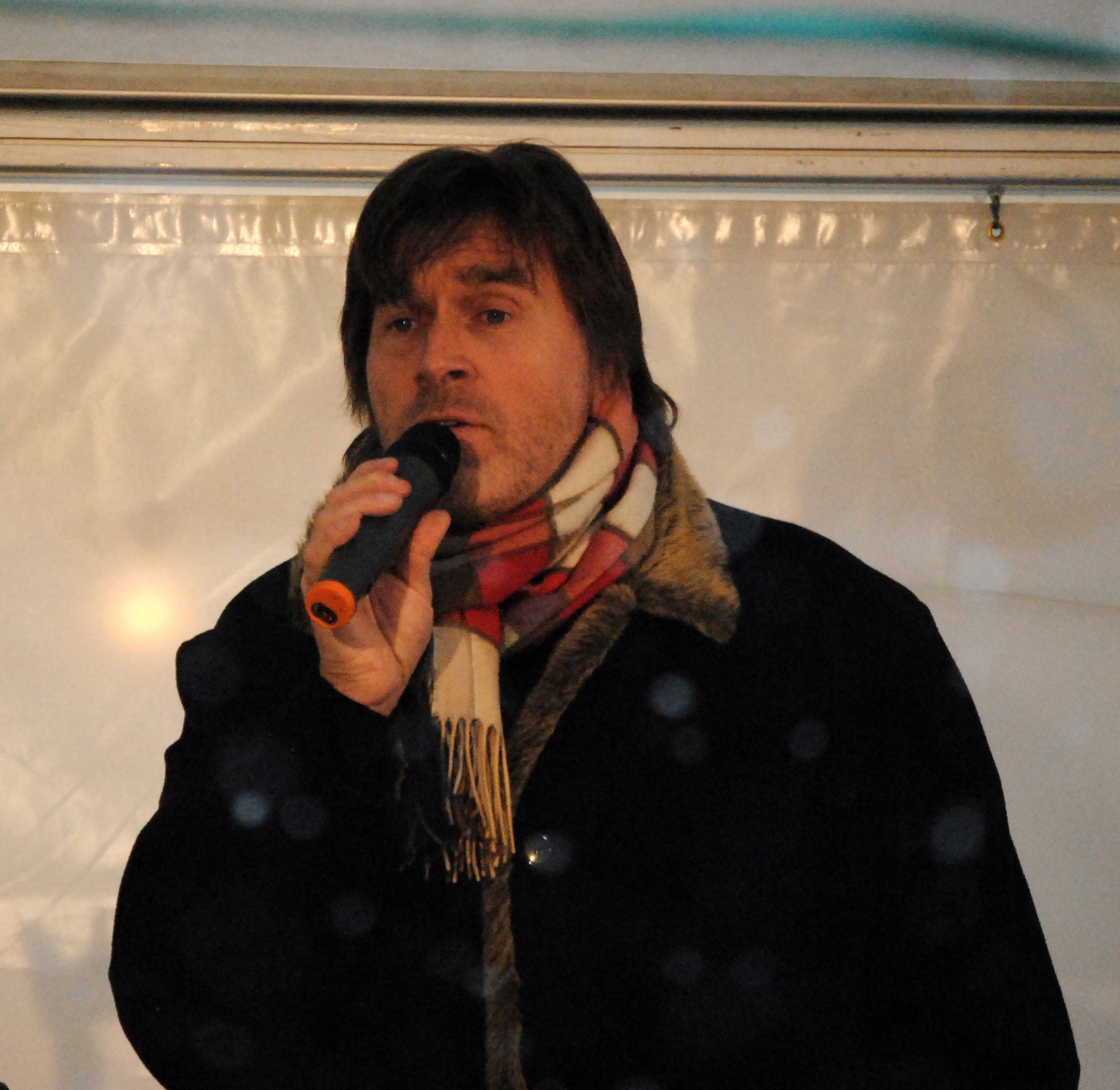 The Lower-Rhenish Schlager singer, songwriter and record producer Karl Timmermann on a stage at Bloemersheim Castle in Neukirchen-Vluyn (North Rhine-Westphalia, Germany)This photograph was taken with a Nikon D3000